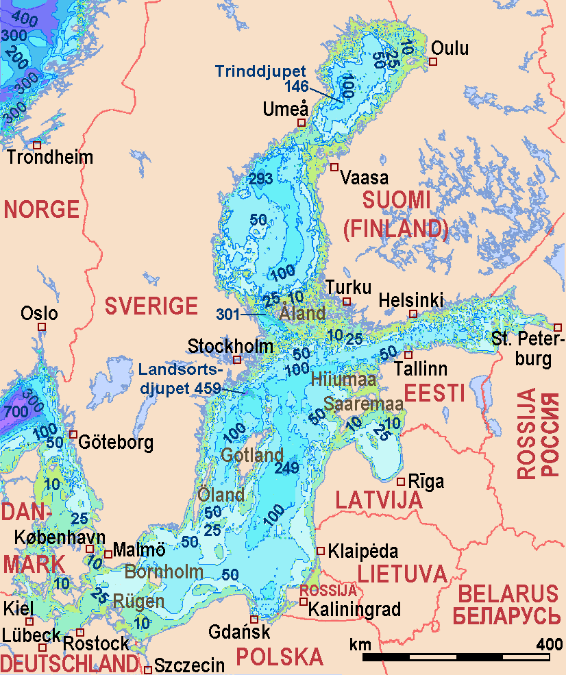 Depths of Baltic Sea and Skagerak